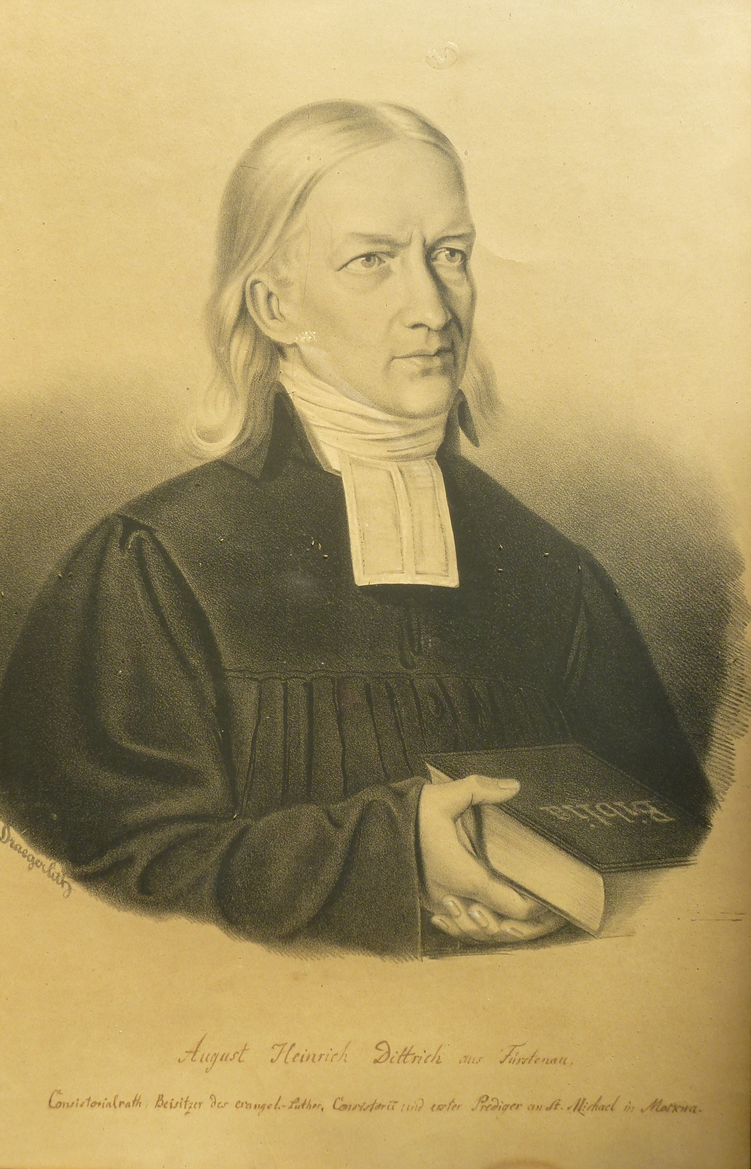 August Heinrich Dittrich